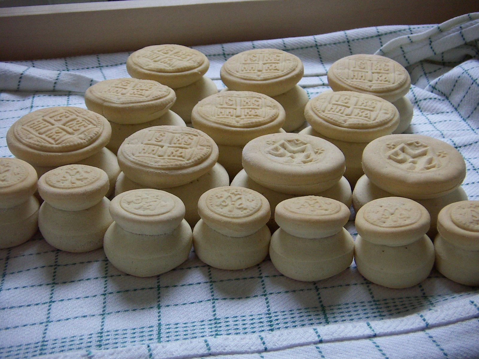 Prosphora